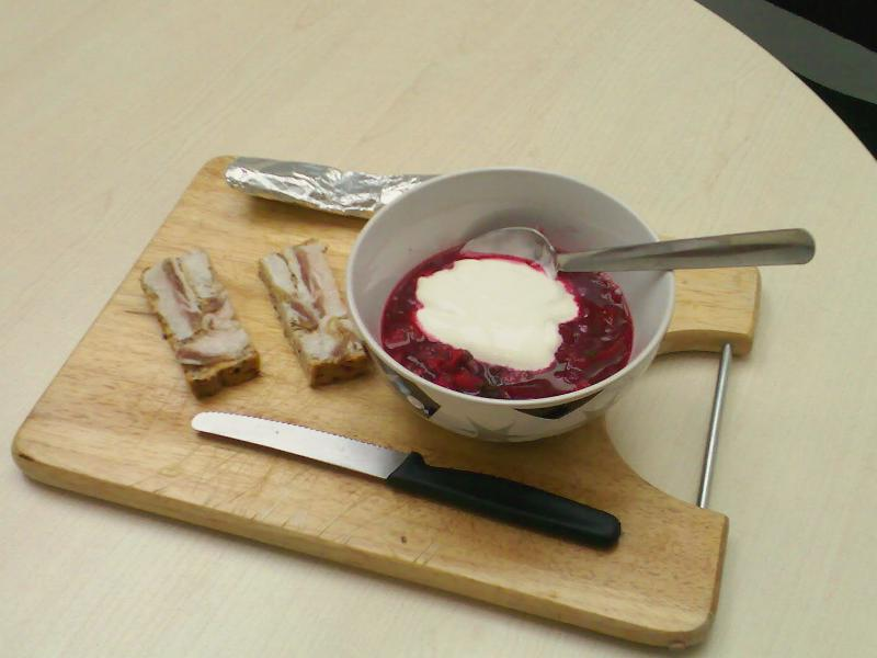 Ukrainian food: Borscht, a huge dollop of smetana, and with some salo on rye bread by the side.